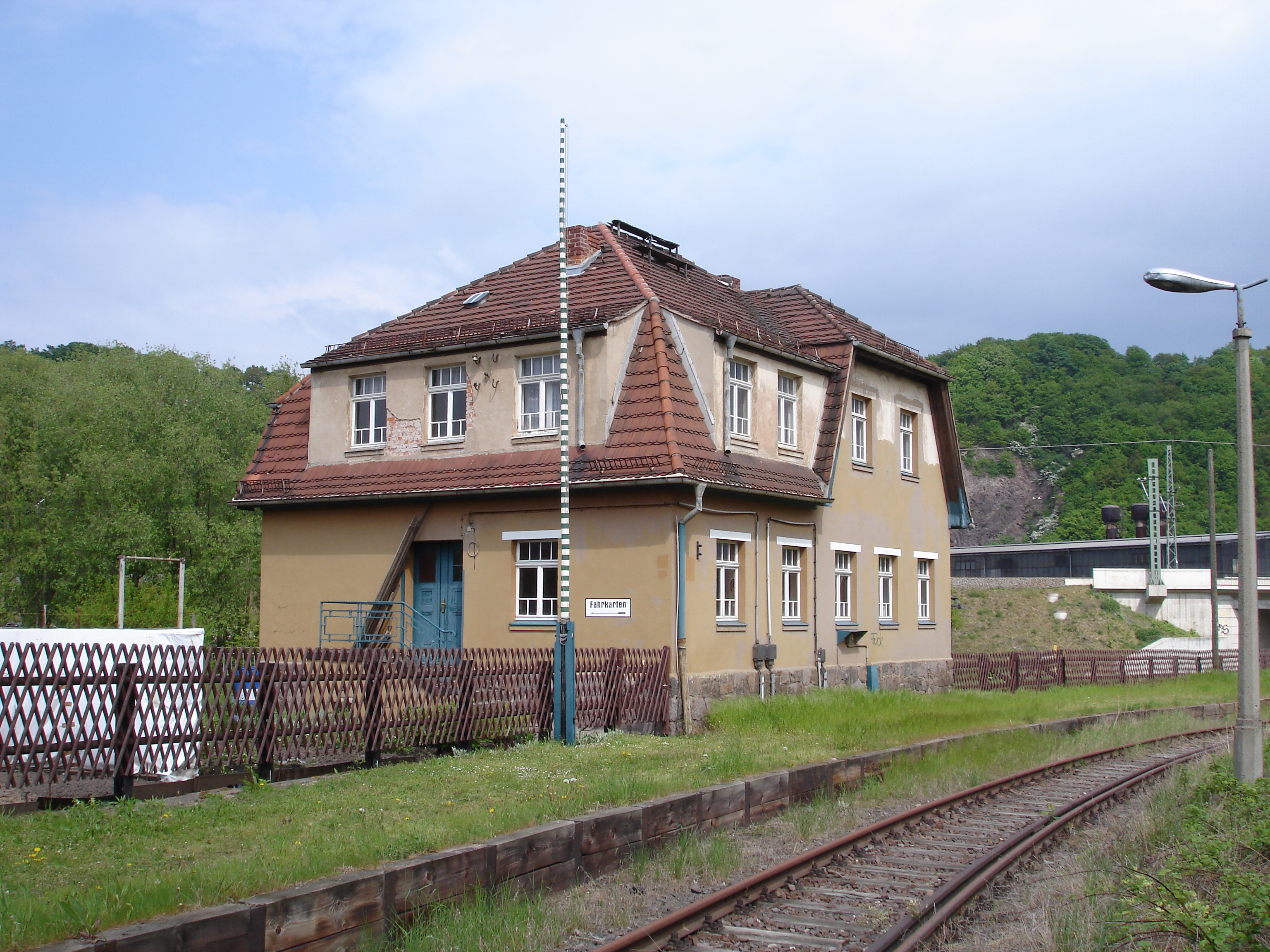 station Freital-Birkigt of Windbergbahn, Germany